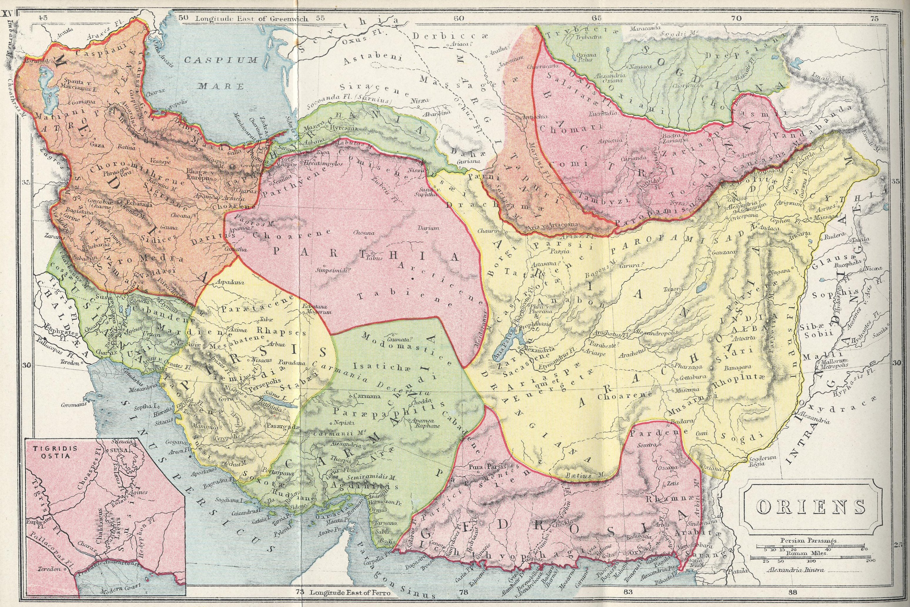 The Atlas of Ancient and Classical Geography by Samuel Butler